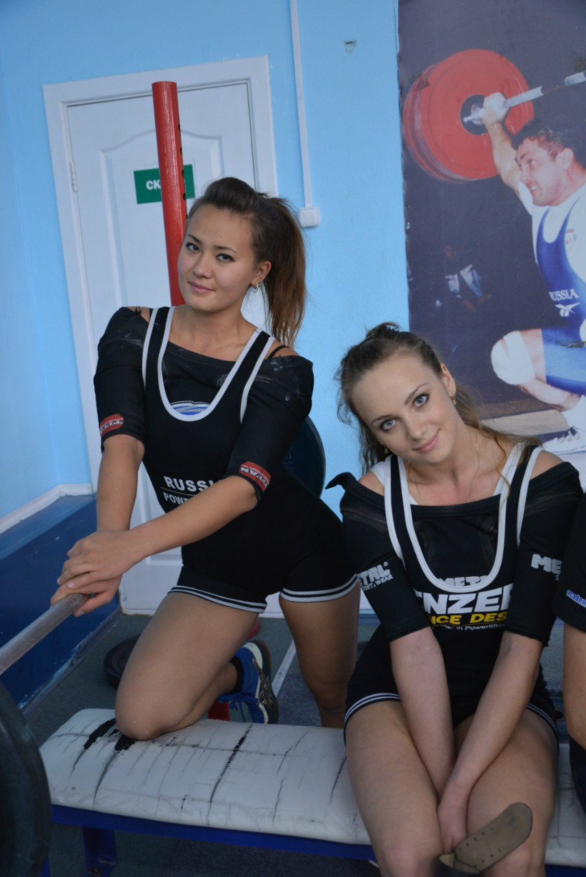 Элита России по жиму